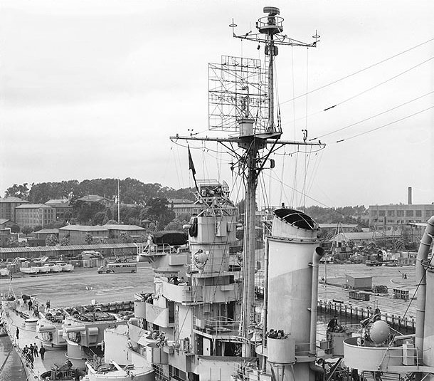 USS Astoria (CL-90). Plan view amidships, looking forward, taken at the Mare Island Navy Yard, California, 21 October 1944. Note life rafts stowed between the ship's smokestacks, and antennas for SK-1 and SG radars atop her foremast. A tractor-trailer "bus" is passing by ashore, to the left of Astoria's pilothouse.